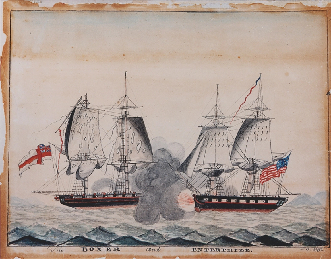 USS Enterprise takes the HMS Boxer, September 5, 1813.jpg